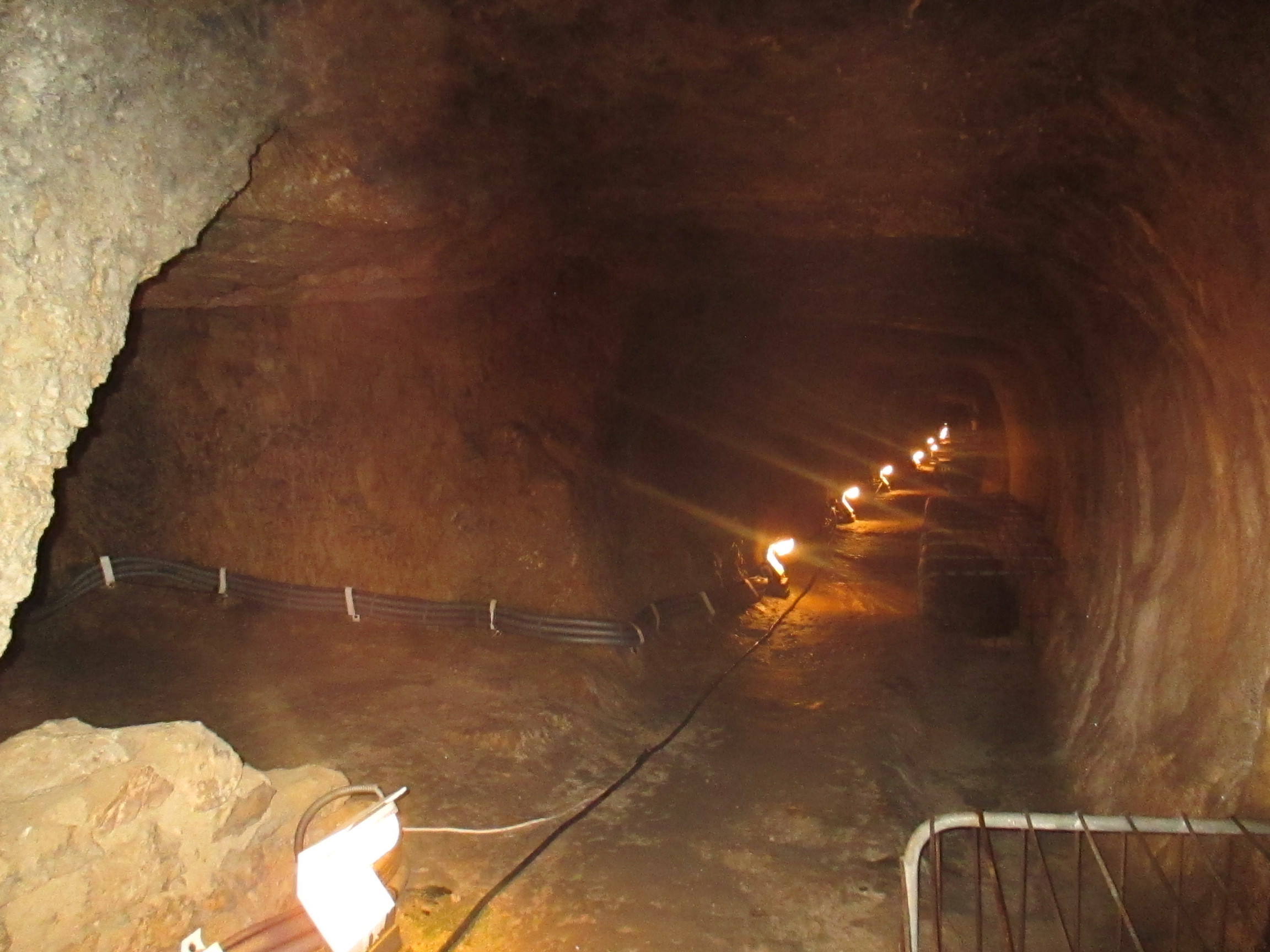 Tunnel of Eupalinos (Eupalinian tunnel), Pythagoreio, Samos, Greece.